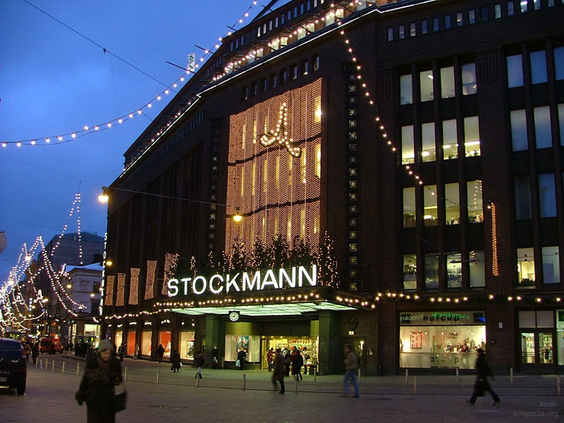 The Stockmann department store in the centre of Helsinki, Finland. Photographed at dawn a few days before Christmas, with lots of Christmas decorations both on the department store building and above the street, Aleksanterinkatu.